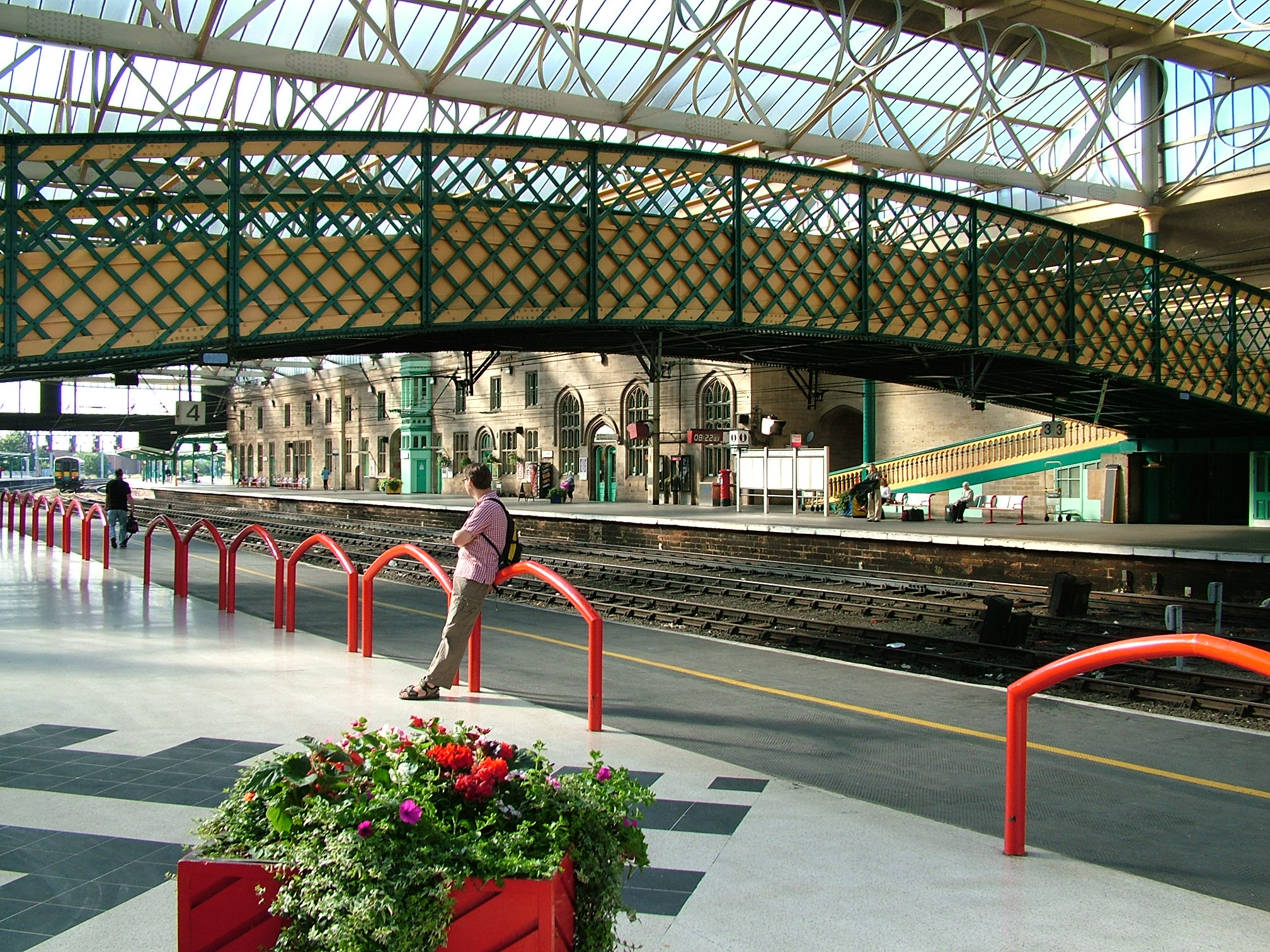 Carlisle railway station, Cumbria, England. By and copyright Tagishsimon